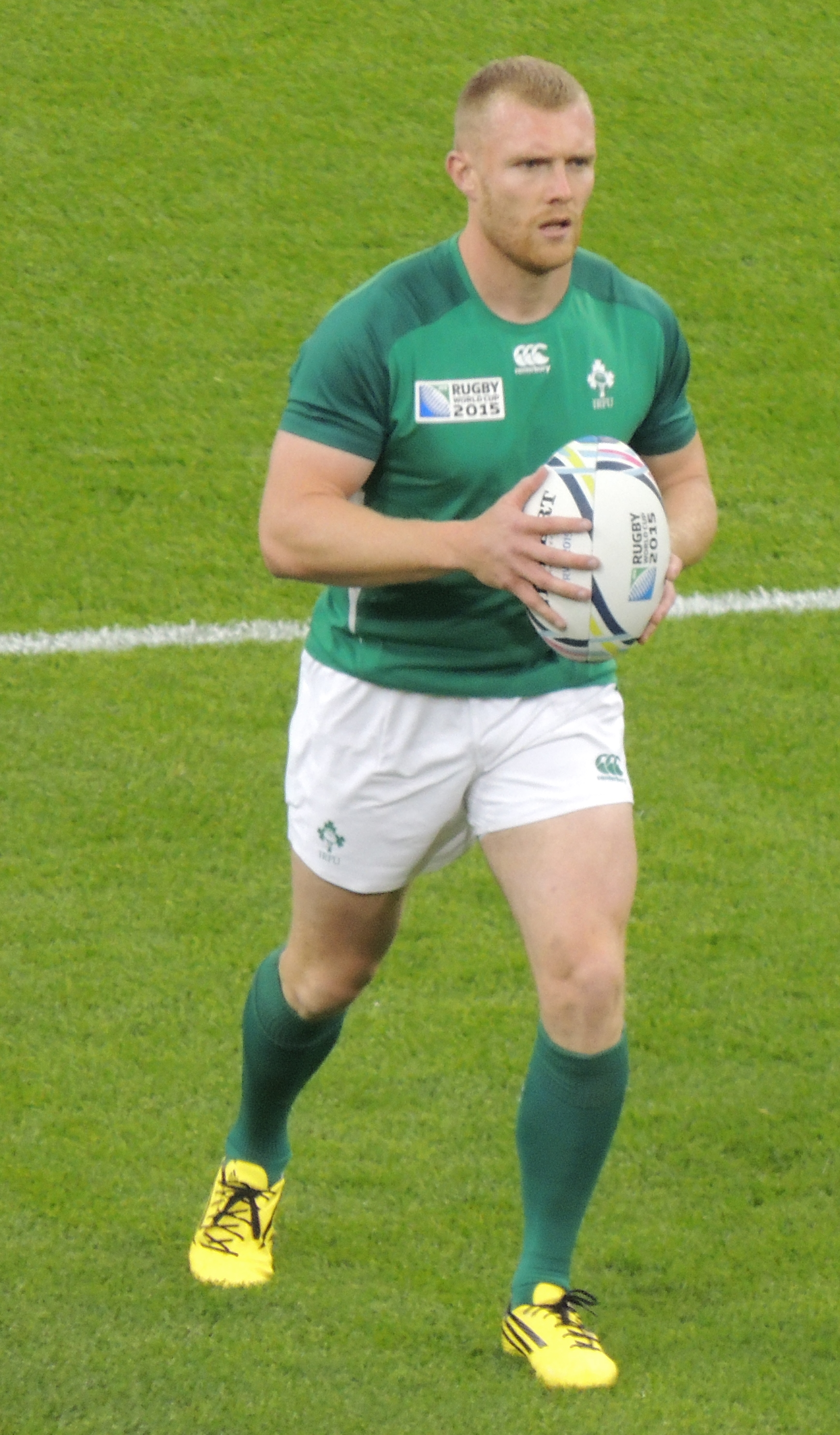 Irish rugby union player Keith Earls playing in 2015 Rugby World Cup game Ireland vs Canada at Millennium Stadium in Cardiff.